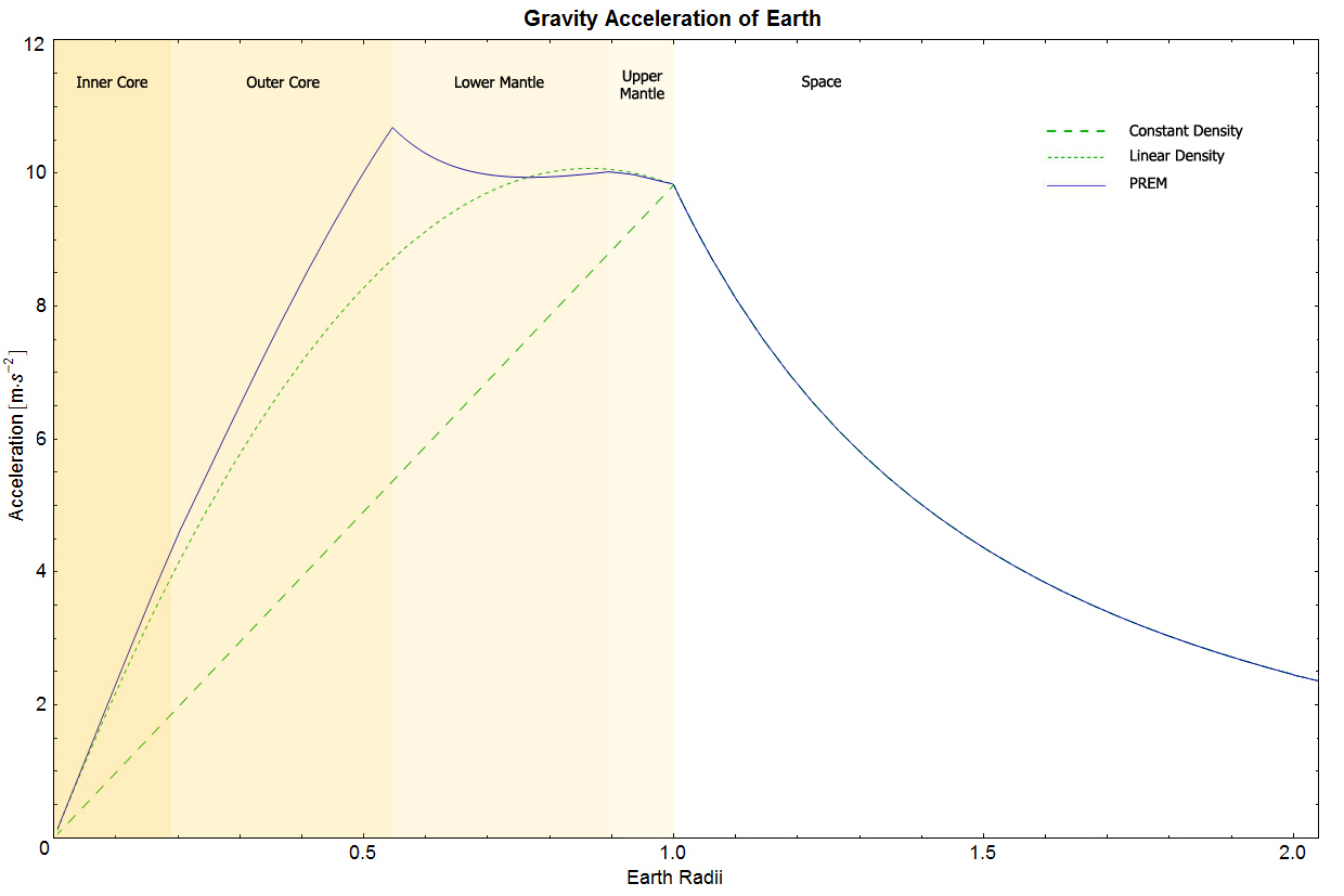 Earth's Gravity according to the Preliminary Reference Earth Model (PREM). The acceleration has its maximum at 0.5463 Earth radii (~ 3481 km, i.e. 2890 km below the surface) and a value of 10.66 m/s². The green curves show: (dashed) an idealized Earth with constant density (naturally, Earth's average density was used for this). (stippled) an approximated Earth, where the density decreases linearly from center to surface. In this model, the density at the center is the same as in the PREM, but the surface density is chosen in such a way that the mass of the resulting sphere equals the mass of the Earth.